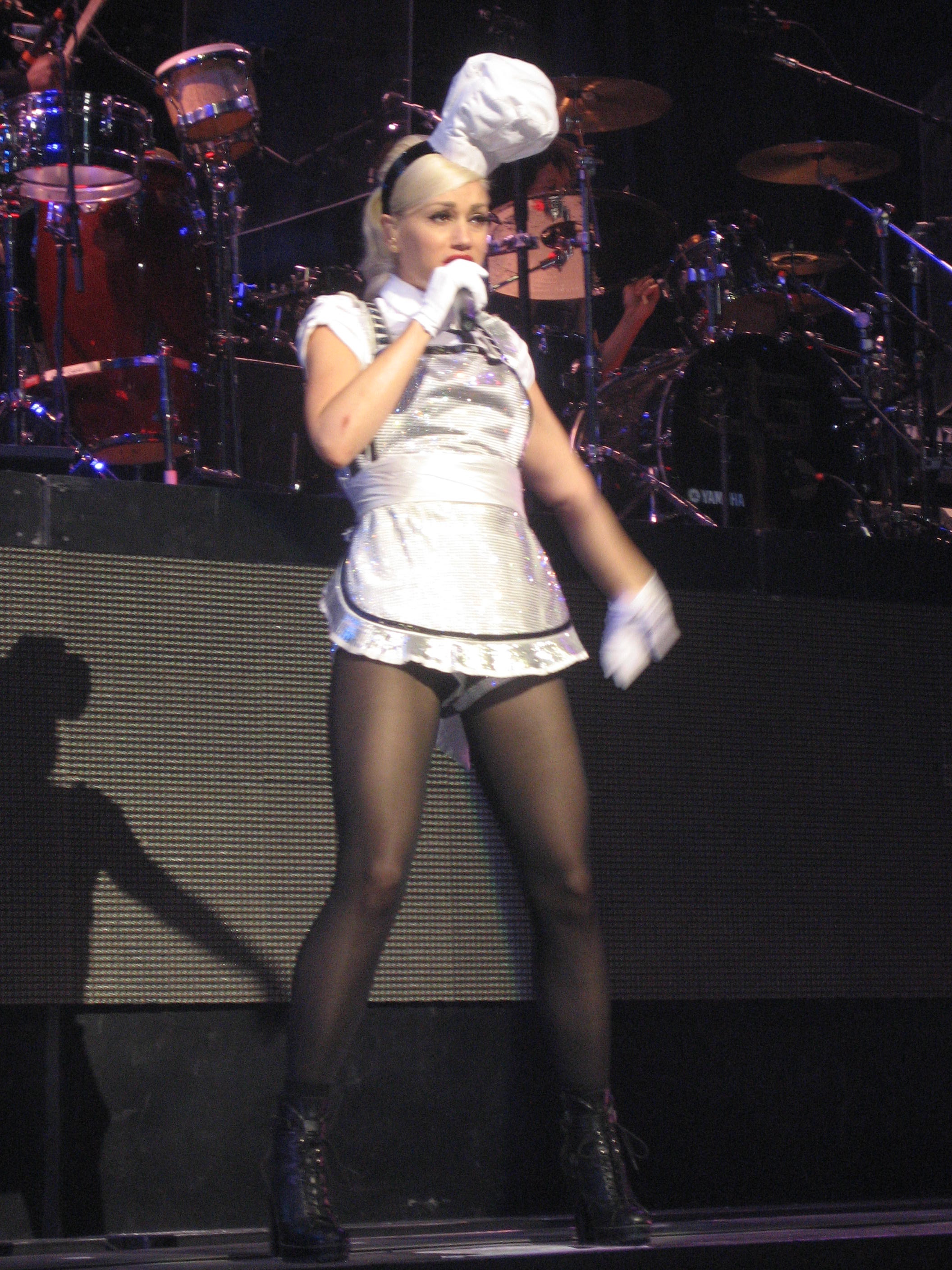 Gwen Stefani performing "Yummy" at the Tweeter Center for the Performing Arts in Mansfield, Massachusetts, United Statesgwen